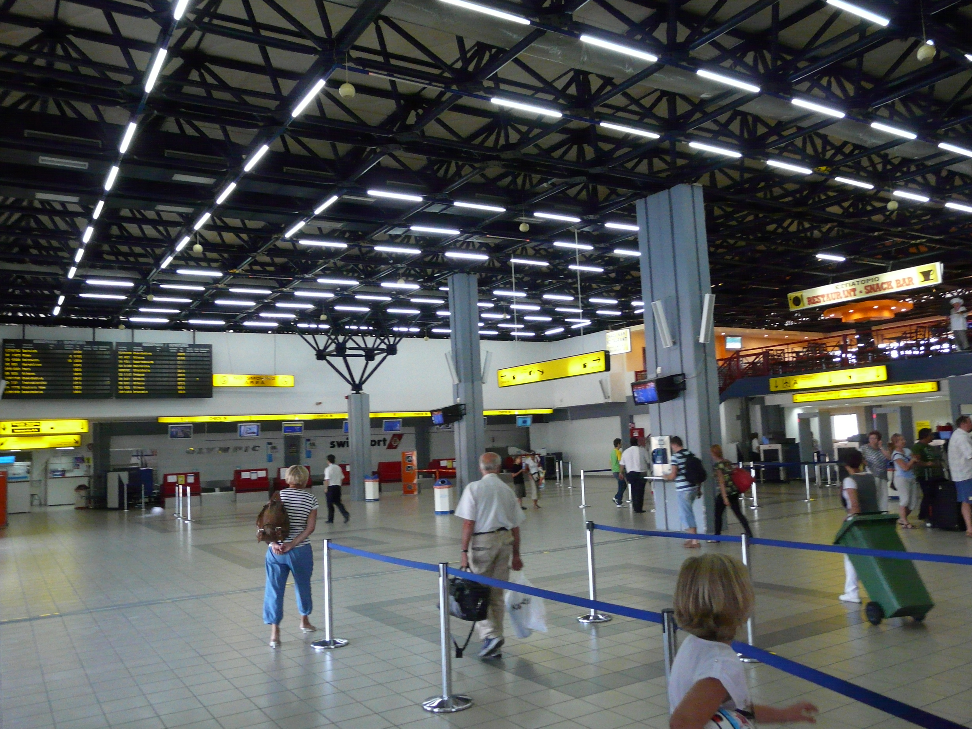 Corfu International Airport